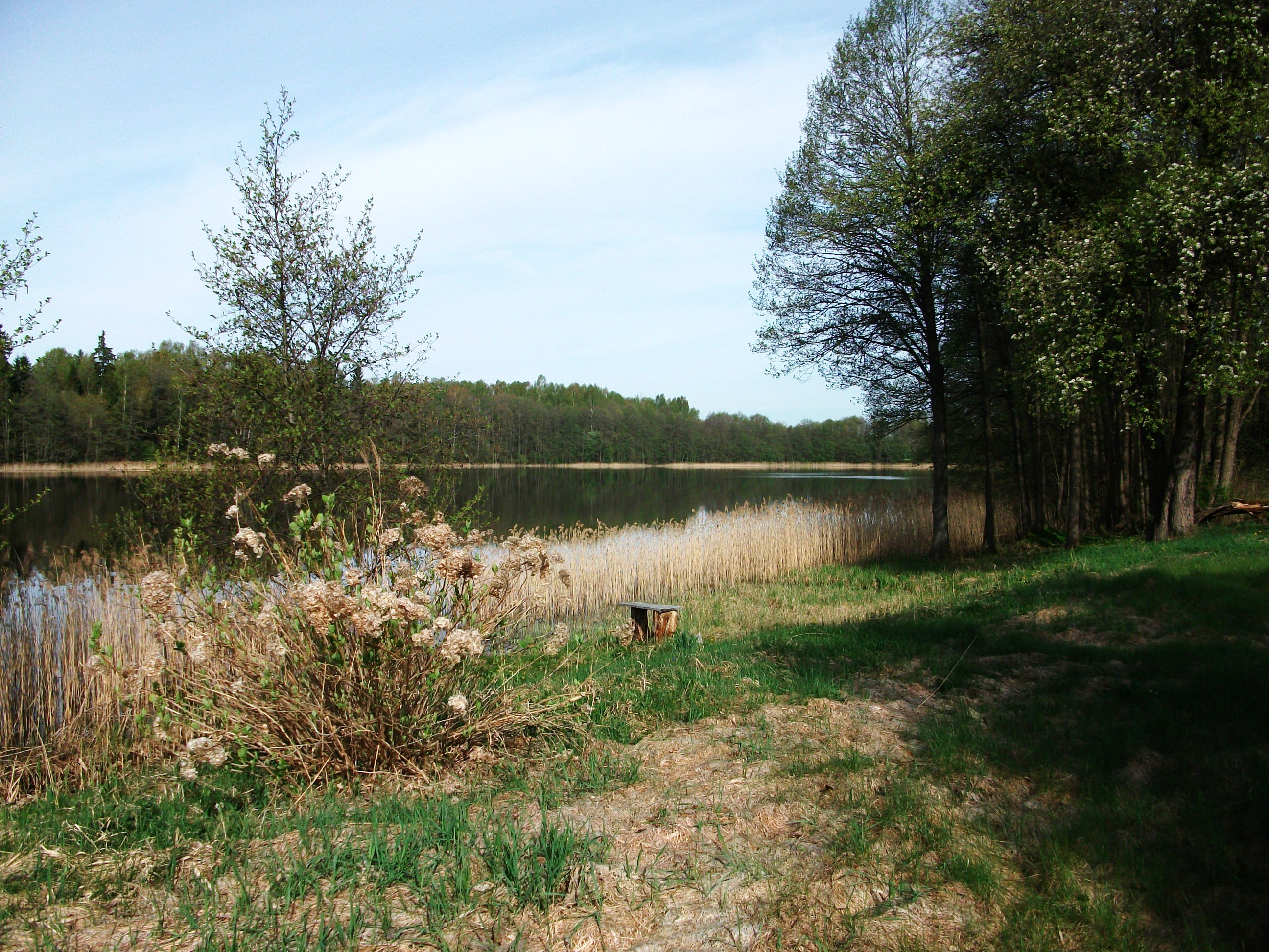 Galodna Lake, Astraviec district, Belarus